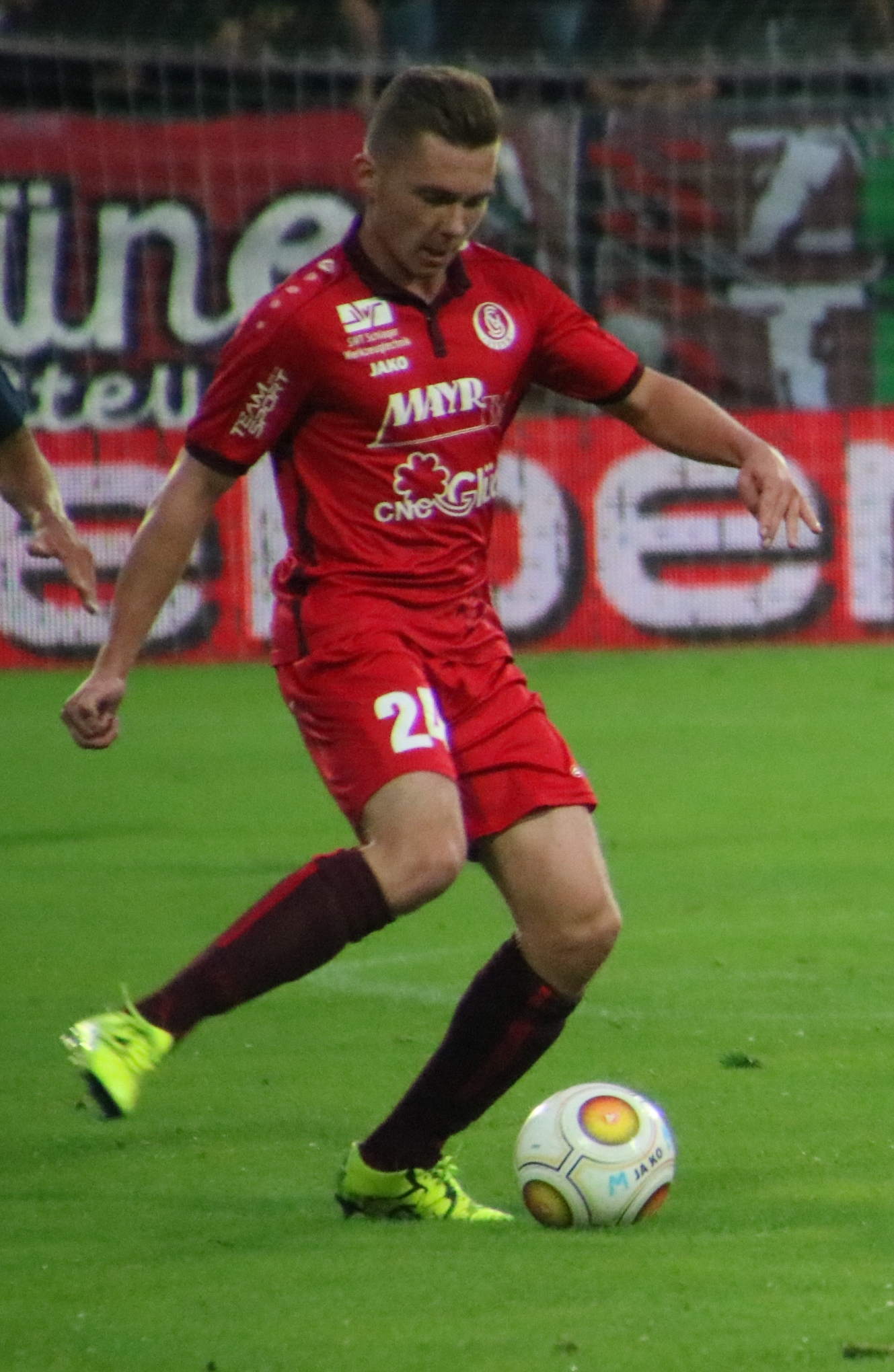 Austrian Cup 1st round